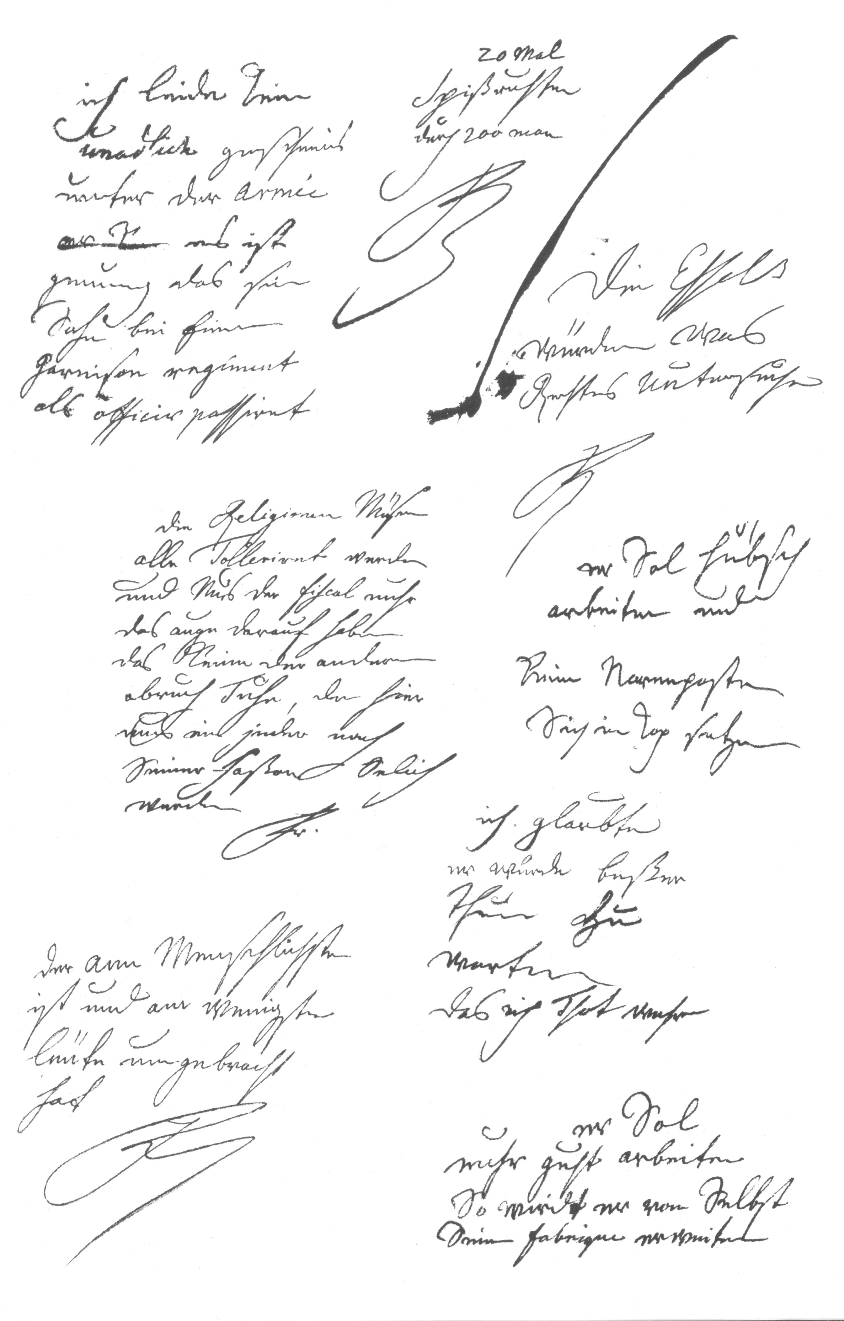 quotes from king Frederick II of Prussia. From up-left do down-right: „ich leide kein unadlich geschmeis unter der Armée es ist genung das sein Sohn bei Einem Garnison regiment als officir passiret“ (Adelstitelverleihung an einen Leutnant) „20 Mal Spißruhten durch 200 man“ (Militärstrafen) „Die Essels würden was Rechtes untersuchen“ (über die Minister und Beamten) „Die Religionen Müsen alle Tolleriret werden und Mus der fiscal nuhr das auge darauf haben das Keine der andern abruch Tuhe, den hier mus ein jeder nach Seiner Faßon Selich werden.“ (Religiöse Freiheit) „er Sol hübsch arbeiten und keine Narenposten[!] sich in Kop setzen“ (Anweisung an Samtmacher für die Arbeiten am Neuen Palais) „Der am Menschlichsten ist und am am wenigsten leüte umgebracht hat“ (Auswahlprinzip eines Kreisarztes) „ich glaubte er würde beßer thun zu warten das ich Thot wehre“ (Antwort auf die Anfrage nach der Herausgabe einer Biographie) „er Sol nuhr guht arbeiten So wirdt er von Selbst Seine fabrique erweitern“ (Ablehnung eines Staatszuschusses für Fabrikanten)